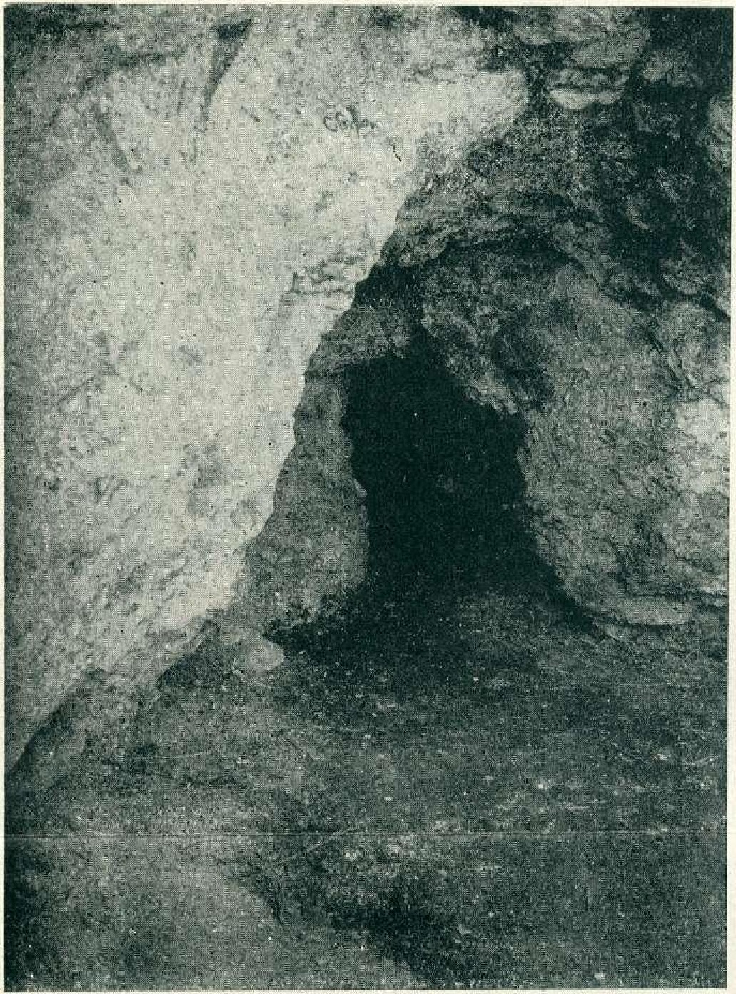 Entrance of the Tábor-hegyi Cave, Buda Hills, Hungary